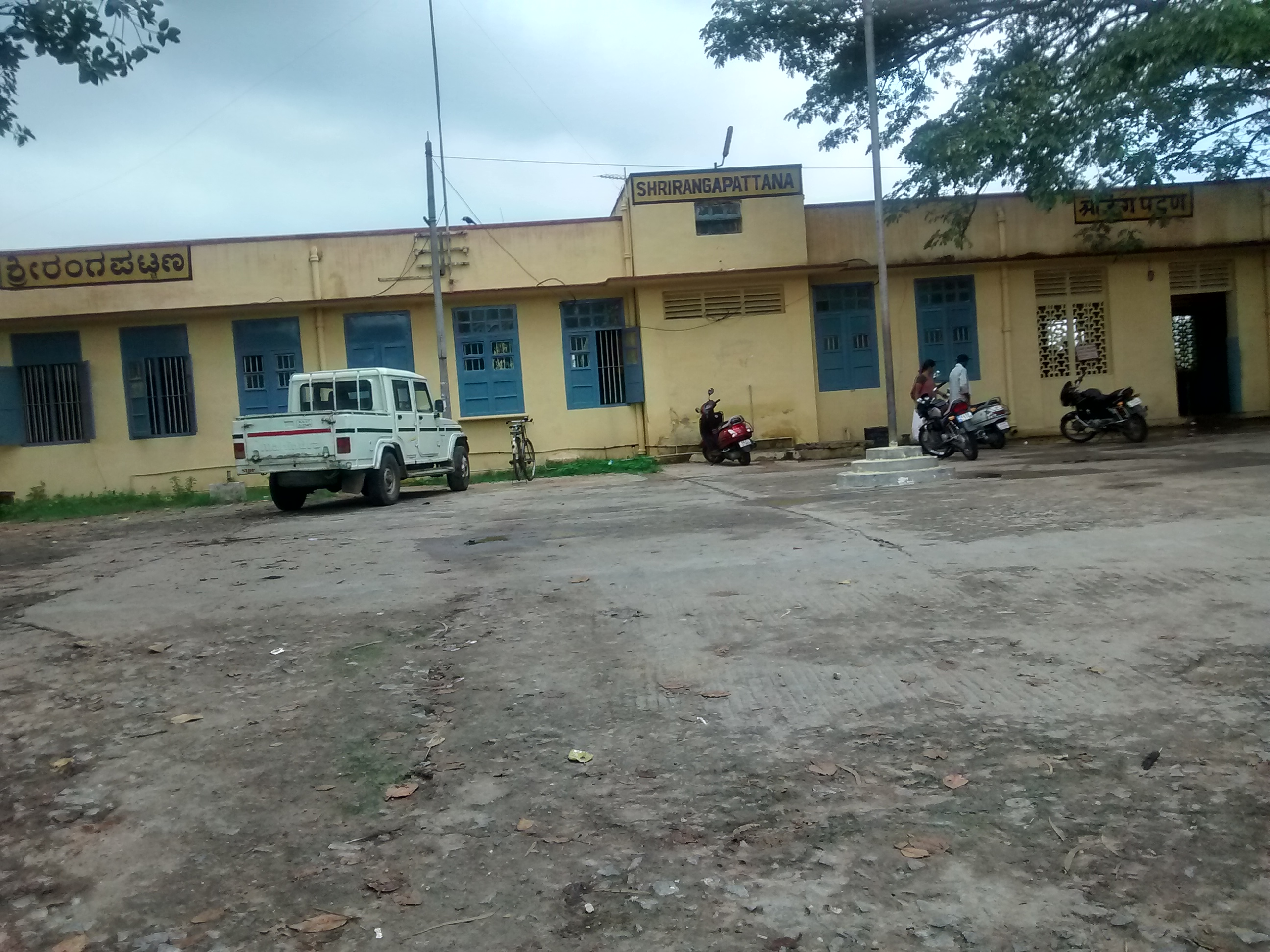 Srirangapattana Railway Station